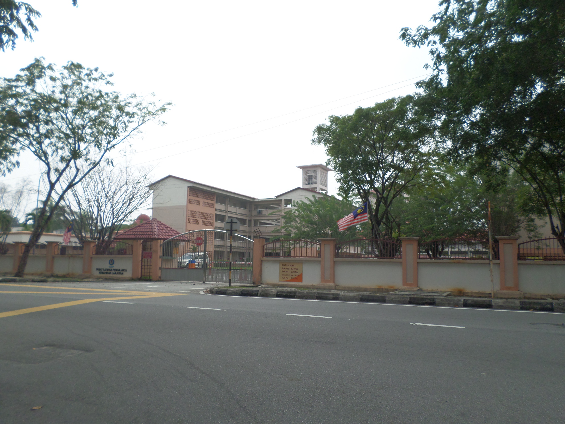 Centre for Instructor and Advanced Skill Training, Shah Alam, Petaling, Selangor, Malaysia